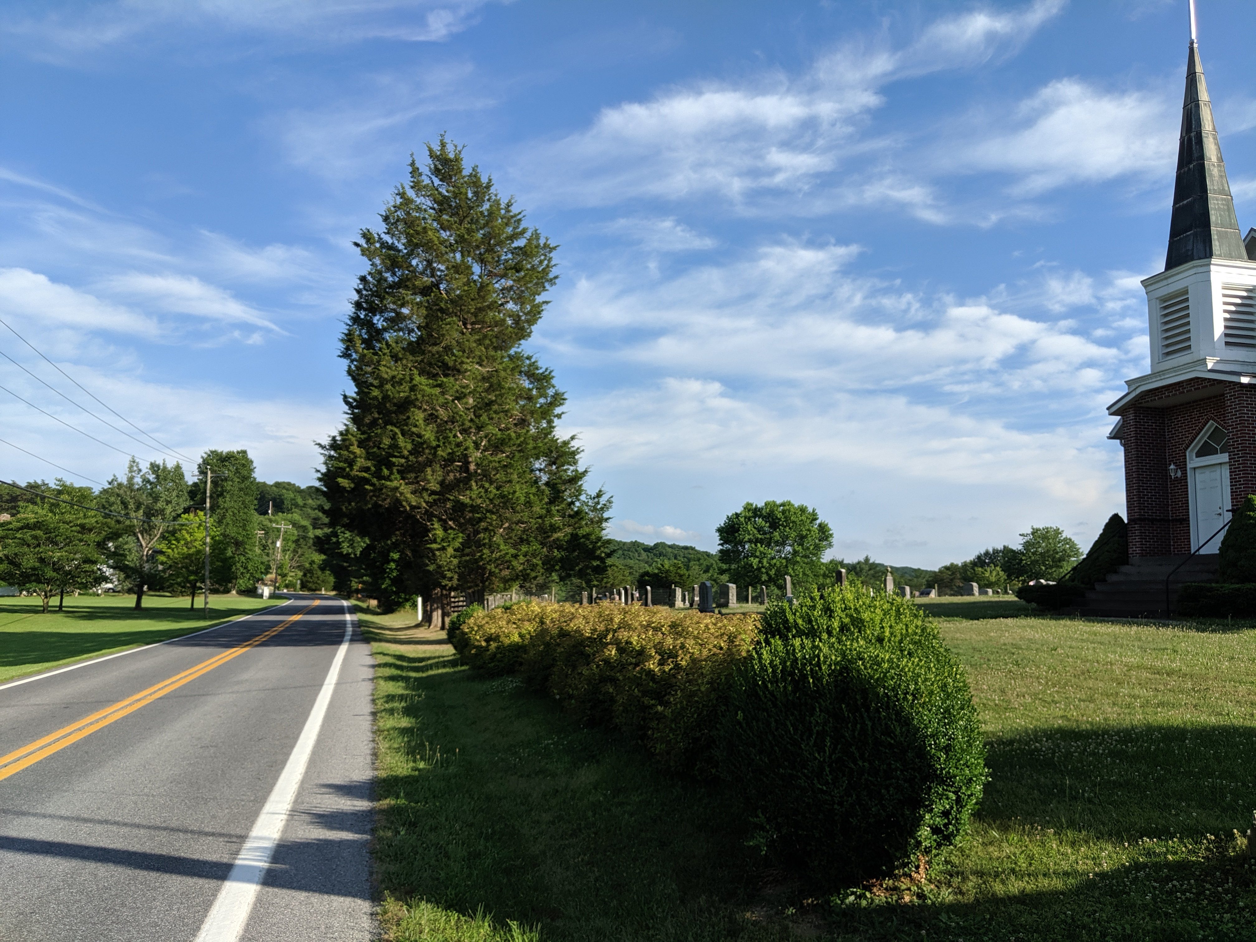 Stotlers Crossroads, West Virginia near the intersection of Winchester Grade Road (County Route 13), Highland Ridge Road and Virginia Line Road.